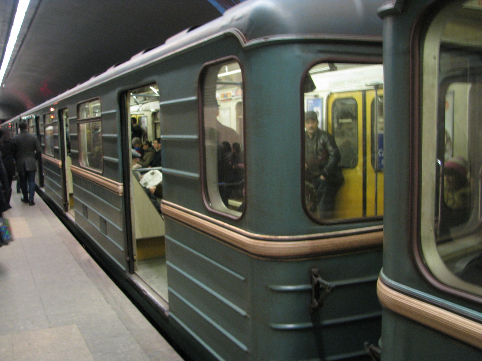 Baku Metro